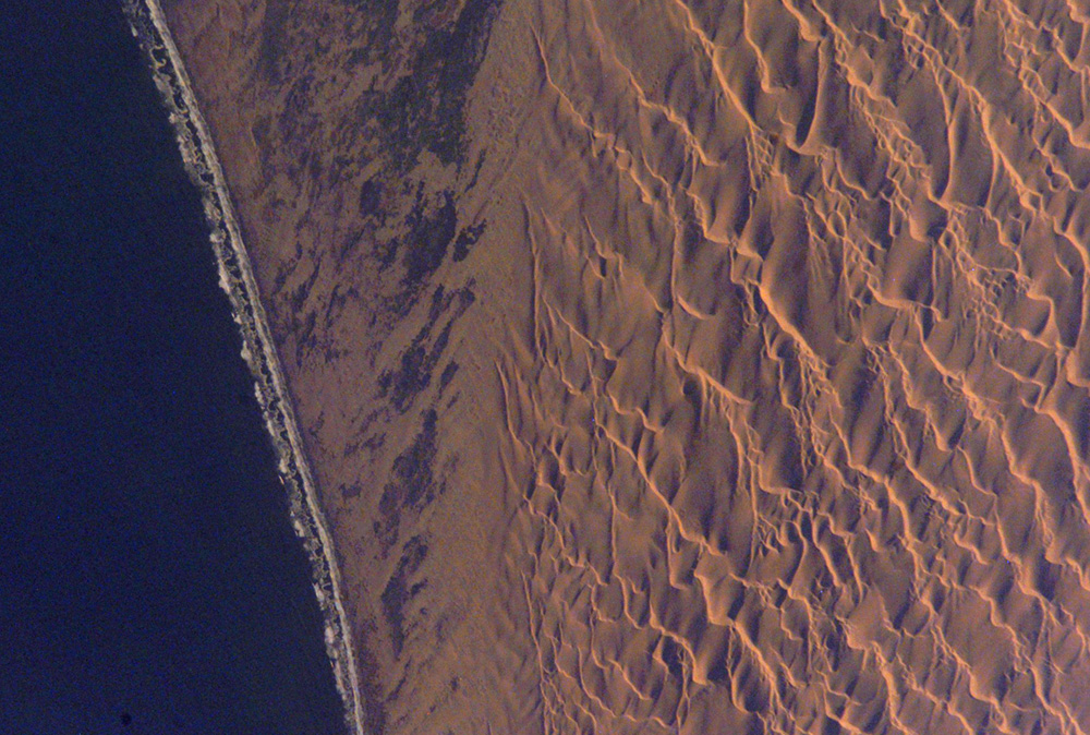 Astronaut photo of the Conception Bay sector of the Namibian coastline, showing the dune sea of the Namib Desert. A strand plain is visible along the coastline.